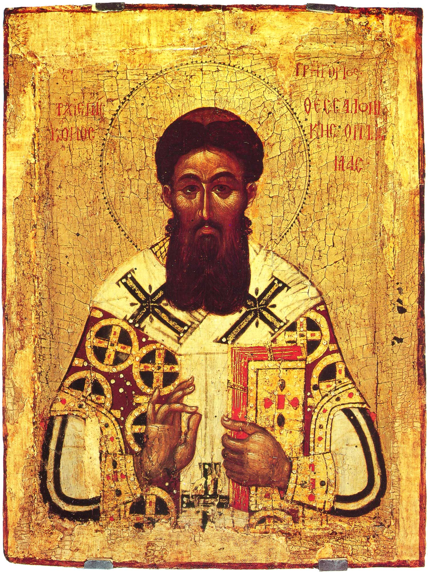 Gregor Palamas